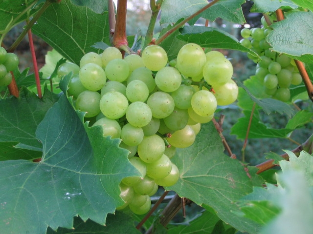 One bunch of green grapes of unsure specie.